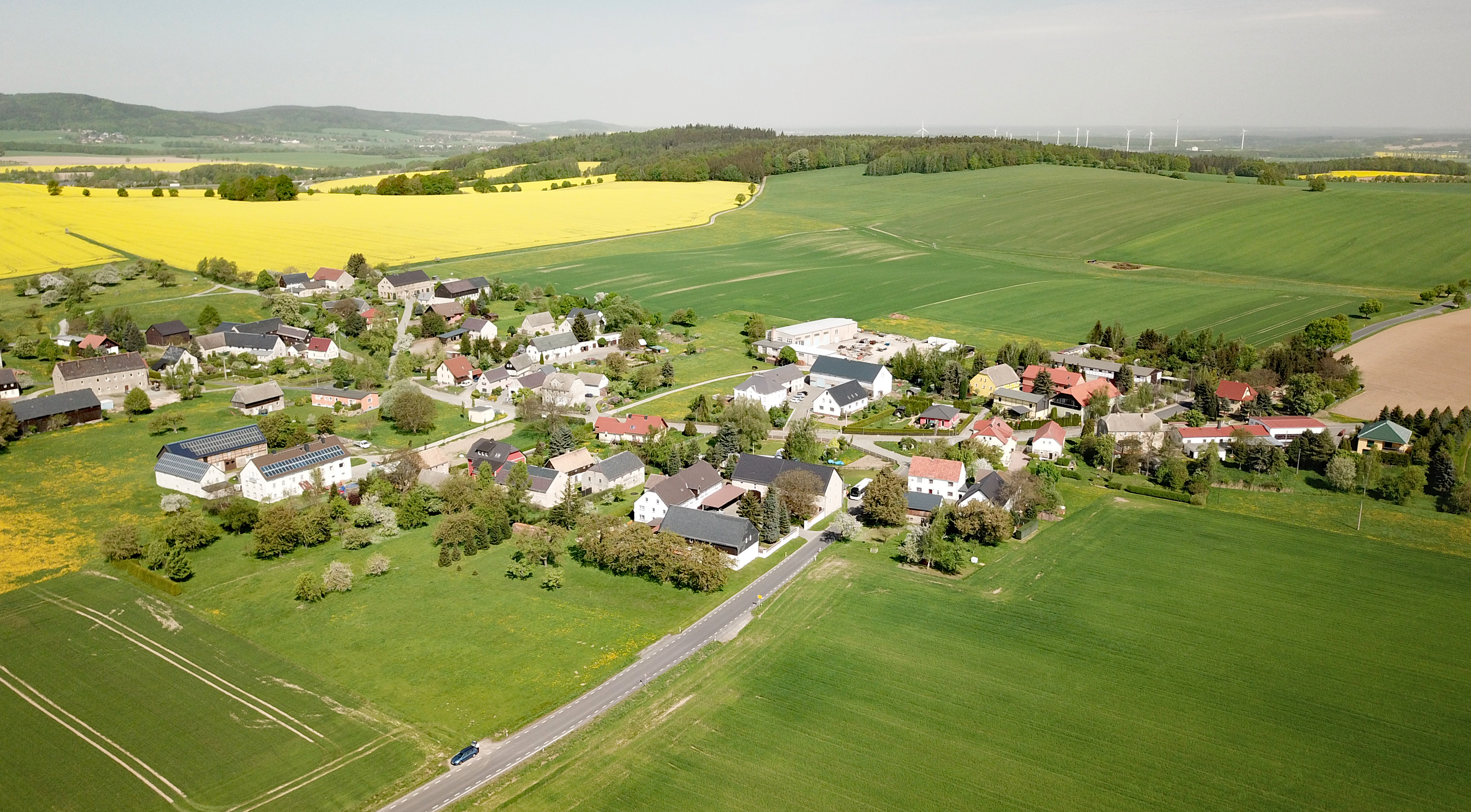 Säuritz (Panschwitz-Kuckau, Saxony, Germany) Hornjoserbsce: Powětrowy wobraz Žuric